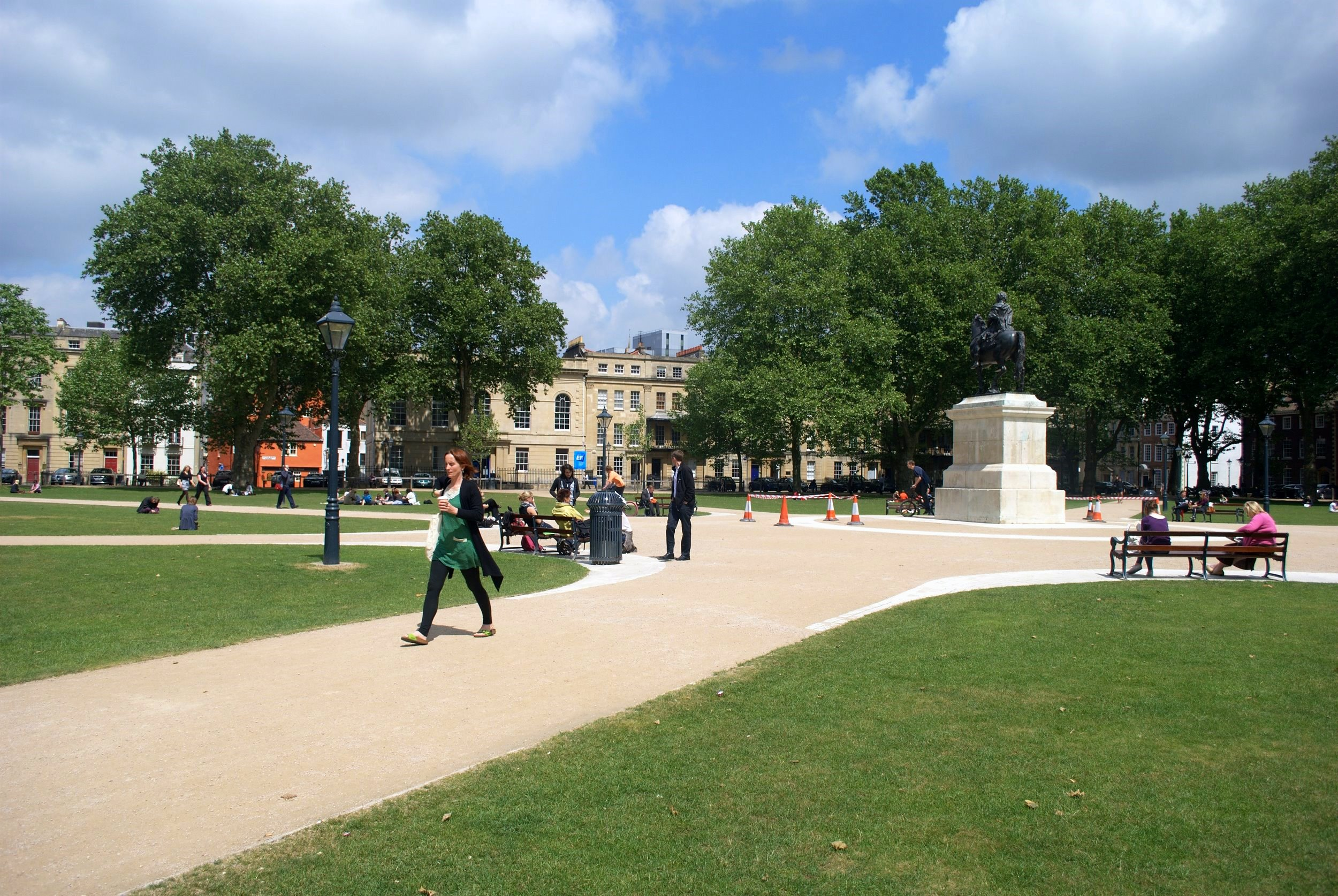 Queen Square, Bristol